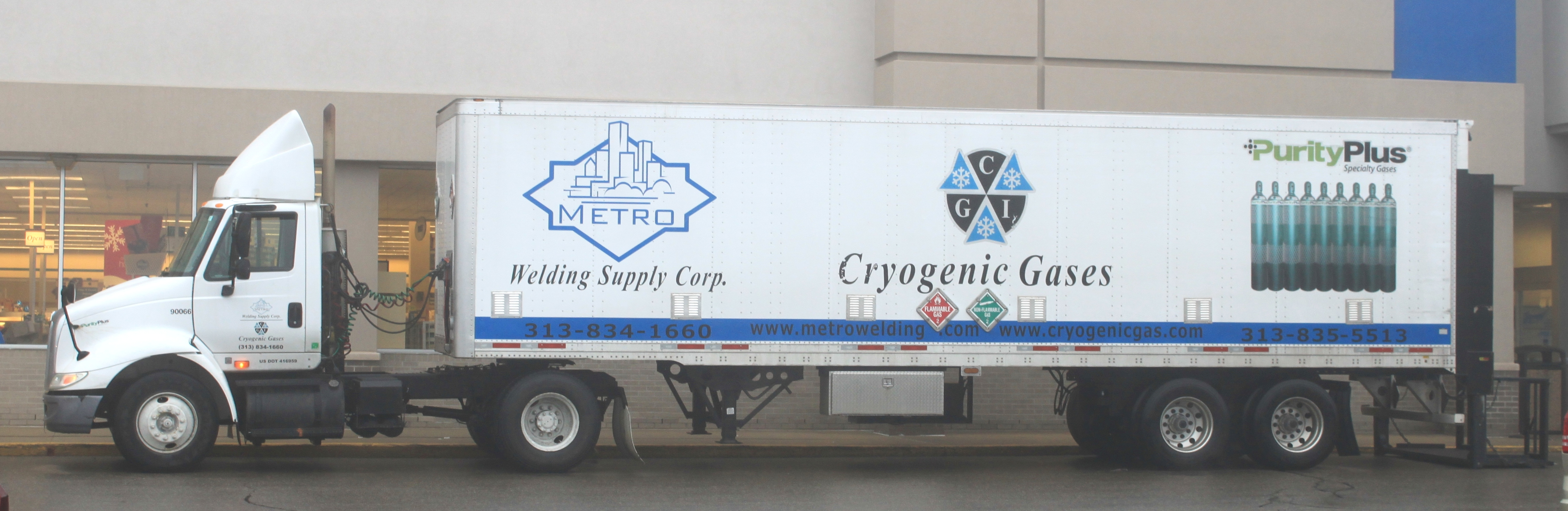 Cryogenic gases delivery truck at a Kroger supermarket, 3200 Carpenter Road, Ypsilanti, Michigan.